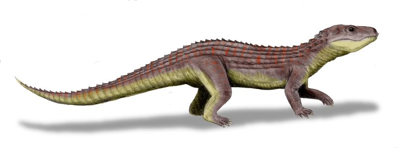 Mariliasuchus amarili, a crocodylomorph from the Upper Cretaceous of South America, pencil drawing, digital coloring